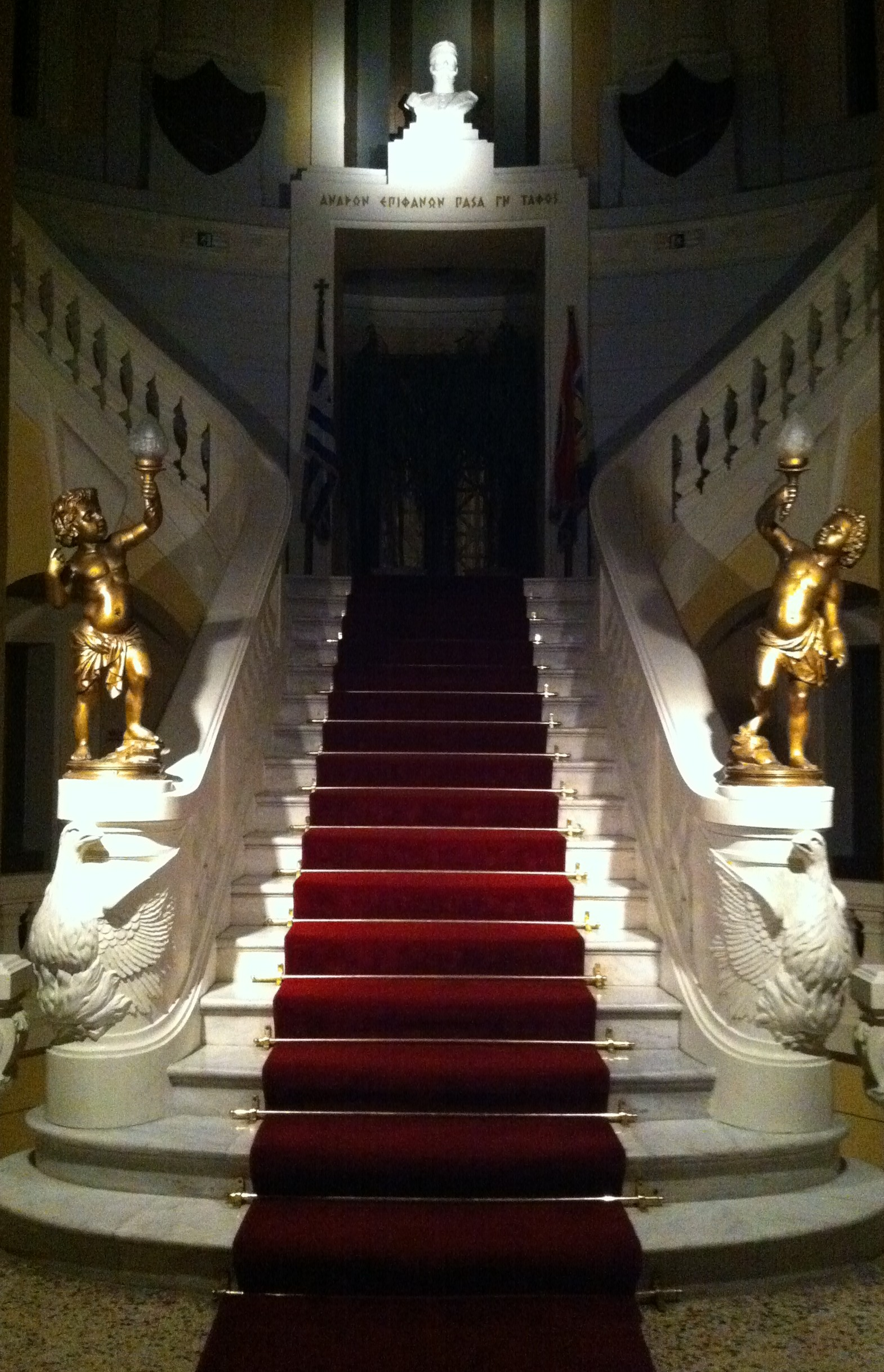 Interior of Saroglio building in Athens